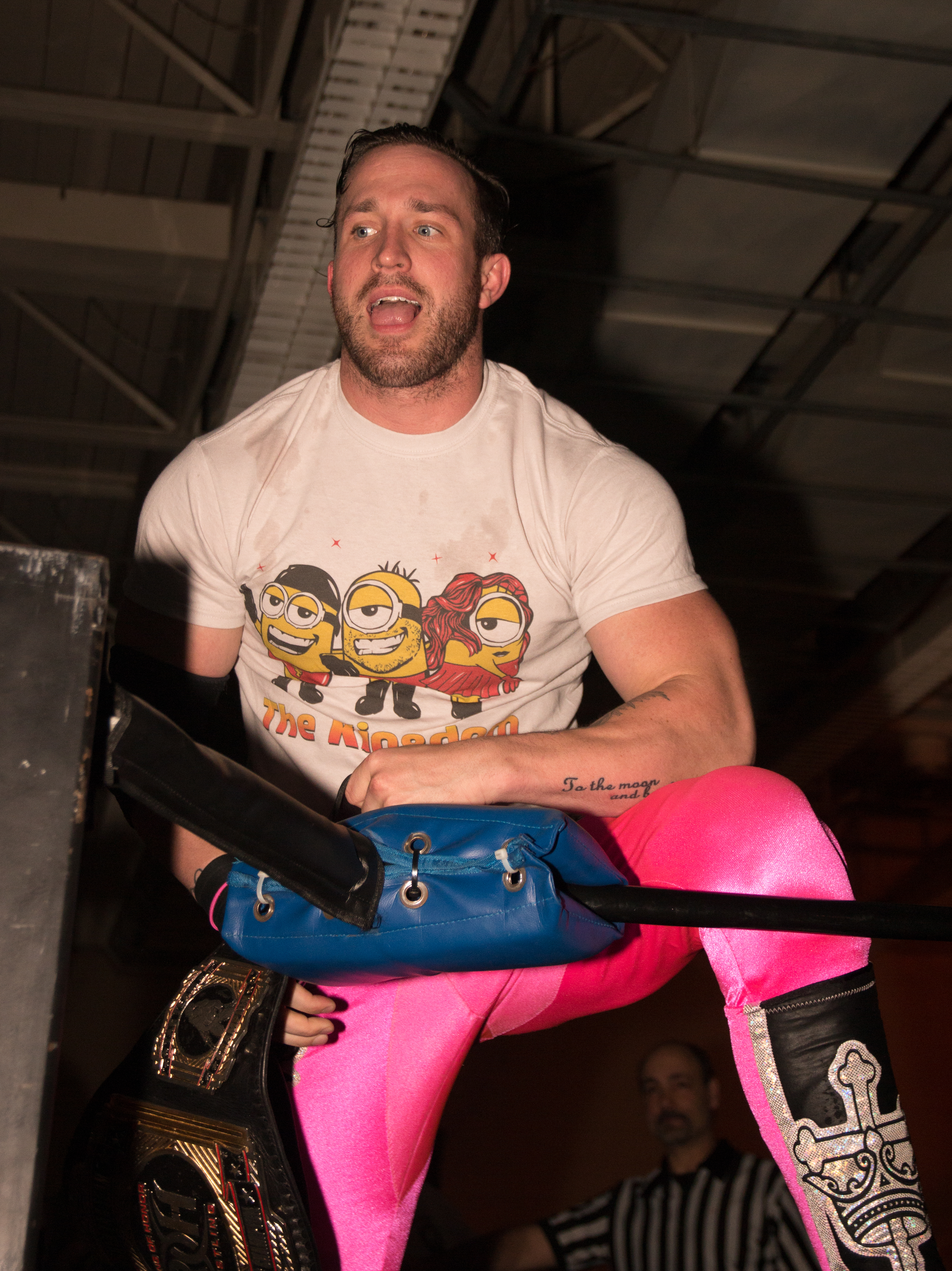 Ring of Honor wrestler Michael Bennett at a Smash Wrestling show in Etobicoke, ON, with the Ring of Honor Tag Team Championship belts